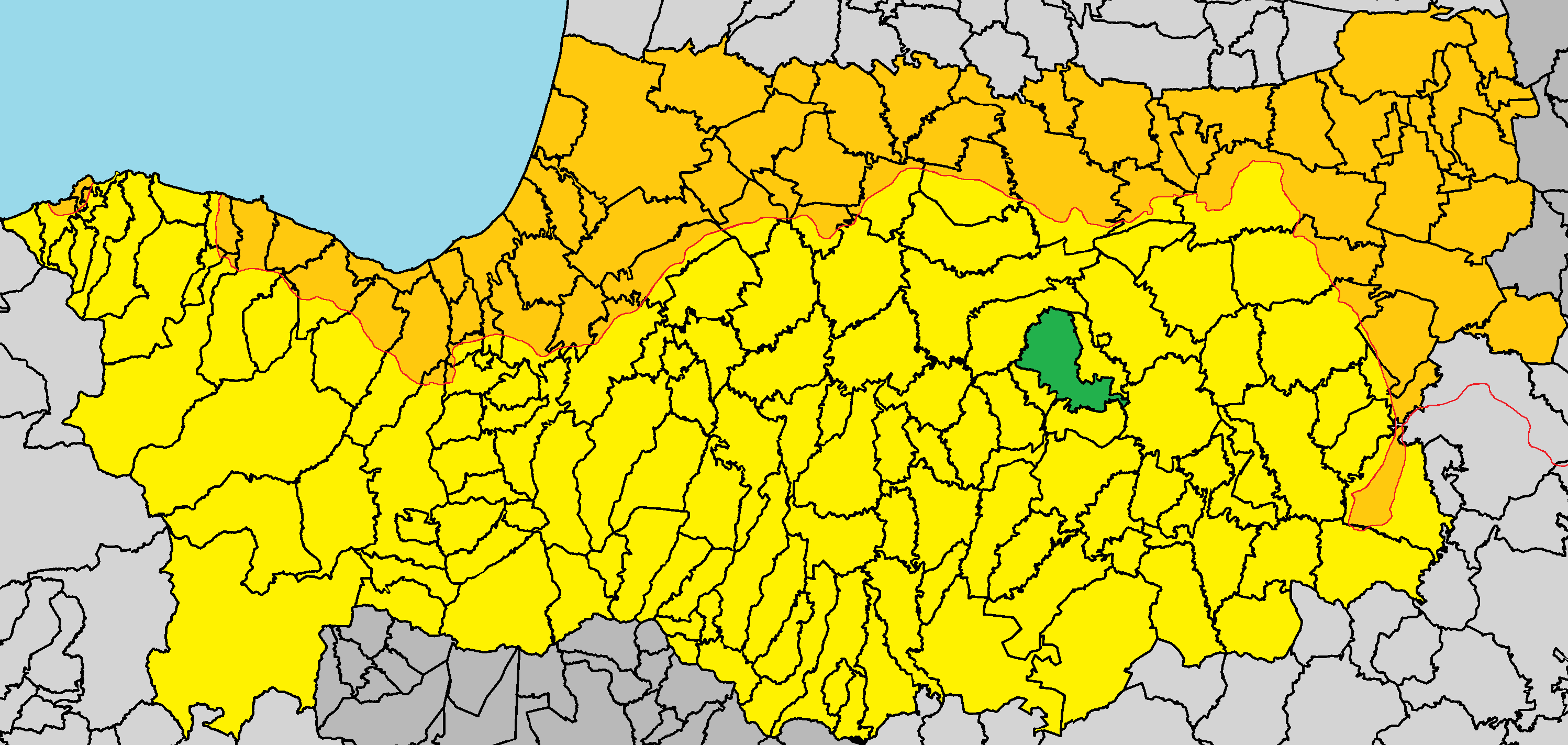 Pano Deftera in Nicosia District.